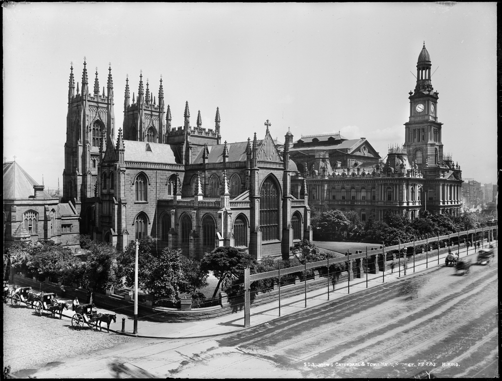 'Sydney City' Pictures from The Powerhouse Museum This file was posted to Flickr by The Powerhouse Museum (See the archive of their website for further information). Many thanks to the Powerhouse Museum for helping release this wonderful material. This tag does not indicate the copyright status of the attached work. A normal copyright tag is still required. See Commons:Licensing for more information.